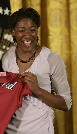 Ogonna Nnamani, Olympic indoor team member, May, 2005.